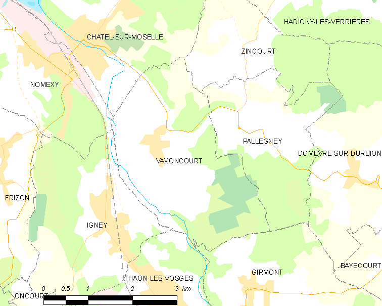 Map of French municipality Vaxoncourt